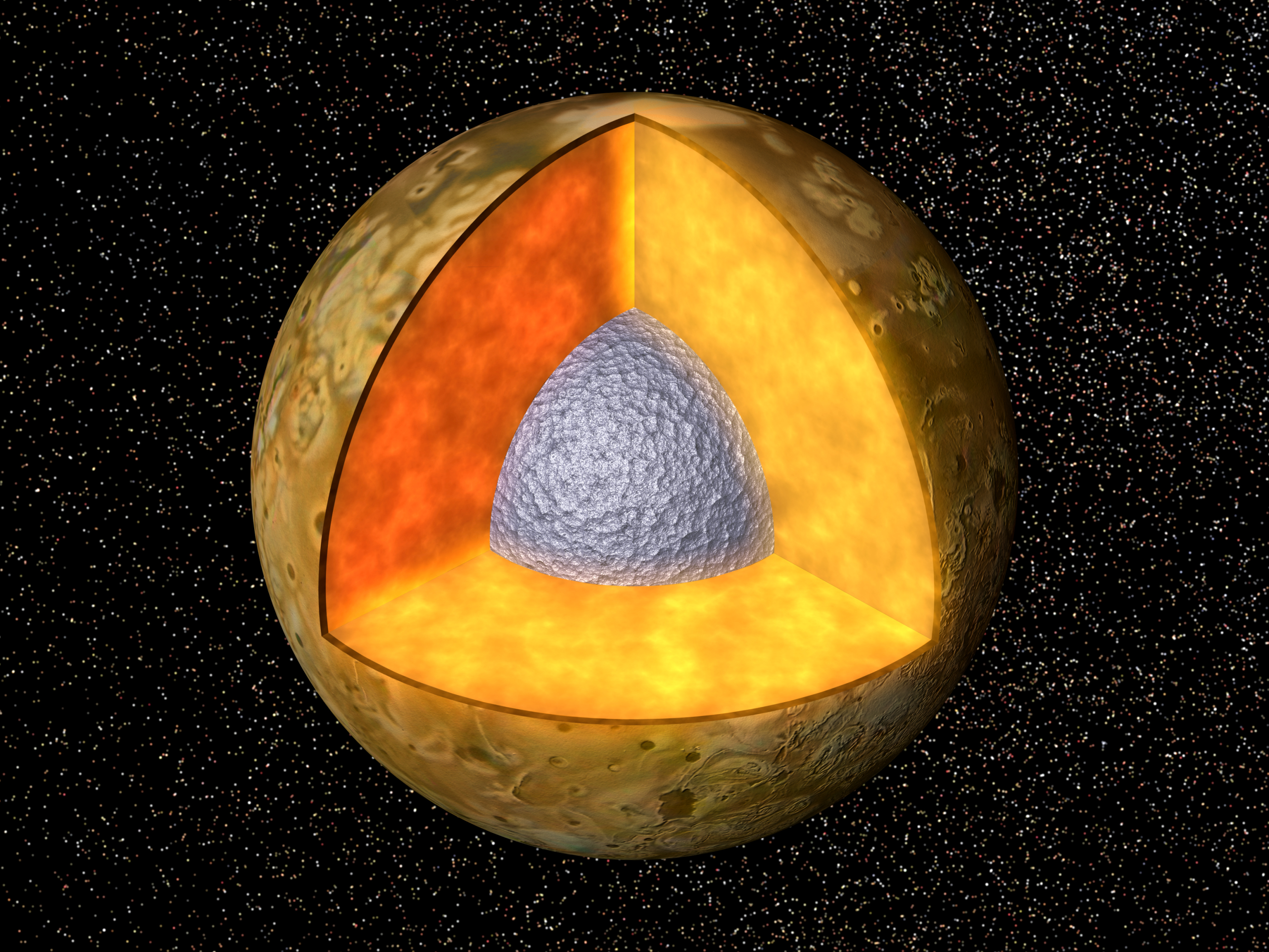 Cutaway view of the possible internal structure of Io The surface of the satellite is a mosaic of images obtained in 1979 by NASA's Voyager spacecraft The interior characteristics are inferred from gravity field and magnetic field measurements by NASA's Galileo spacecraft. Io's radius is 1821 km, similar to the 1738 km radius of our Moon; Io has a metallic (iron, nickel) core (shown in gray) drawn to the correct relative size. The core is surrounded by a rock shell (shown in brown). Io's rock or silicate shell extends to the surface.